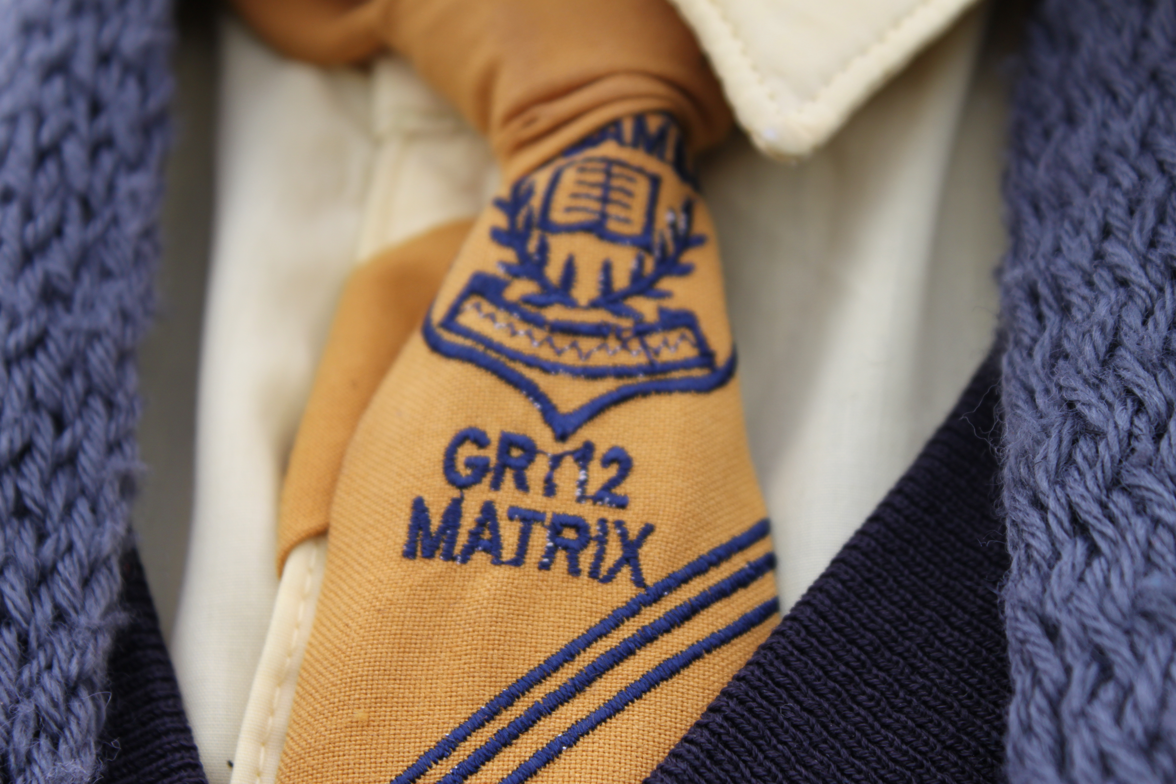 in School